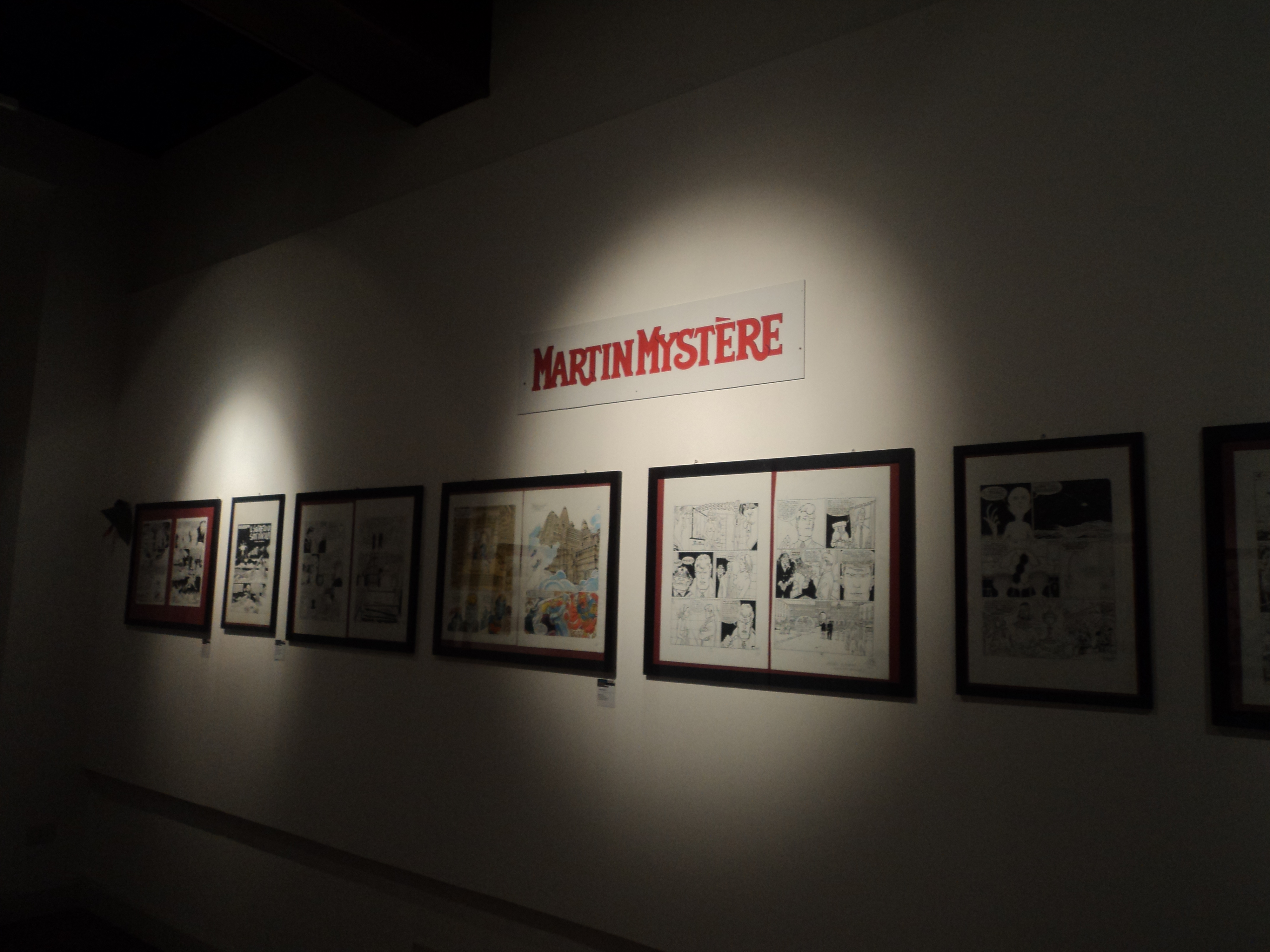 Show L'Audace Bonelli in Rome.